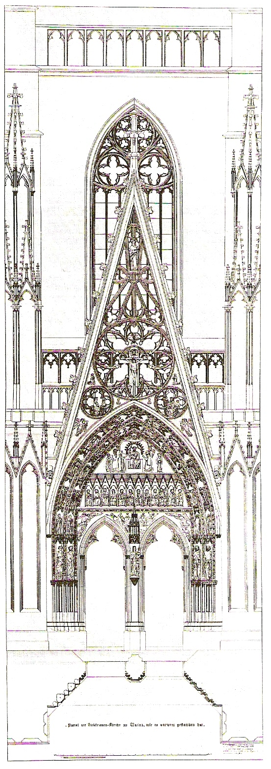 Eastern entrance of the church St. Maria ad Gradus, Mainz (destroyed 1803)